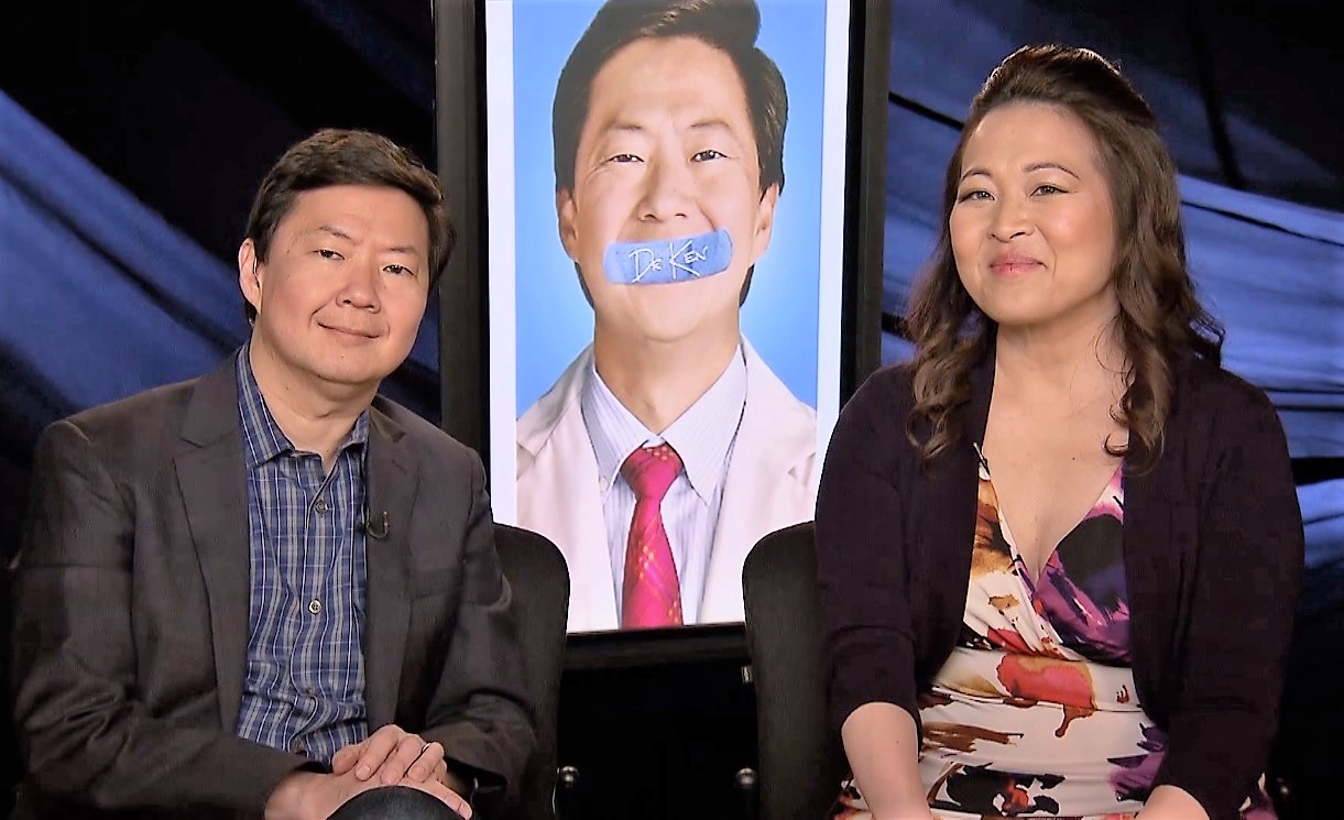 SIDEWALKS host Lori Rosales interviews Ken Jeong and Suzy Nakamura, who play husband and wife on the ABC's "Dr. Ken," a comedy series created by Jeong. They talk about working together previously and with their castmates on "Dr. Ken."